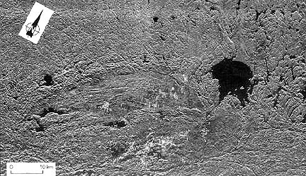 A SIR-B radar image of southern Ontario highlights two juxtaposed but unrelated craters that are very different in age, in size, and in structural state. SIR-B radar image of the Sudbury impact structure (elliptical because of deformation by Grenville thrusting) and the nearby Wanapitei crater (lake-filled) formed much later. The partially circular lake-filled structure on the right (east) is the 8 km (5 mi) wide Wanapitei crater, estimated to have formed 34 million years (m.y.) ago. The far larger Sudbury structure (second largest on Earth) appears as a pronounced elliptical pattern, more strongly expressed by the low hills to the north. This huge impact crater, with its distinctive outline, was created about 1800 m.y. ago. Some scientists argue that it was at least 245 km (152 mi) across when it was circular. More than 900 m.y. later strong northwestward thrusting of the Grenville Province terrane against the Superior Province (containing Sudbury) subsequently deformed it into its present elliptical shape (geologists will recognize this as a prime example of the "strain ellipsoid" model). After Sudbury was initially excavated, magmas from deep in the crust invaded the breccia filling, mixing with it and forming a boundary layer against its walls. Some investigators think that the resulting norite rocks are actually melted target rocks. This igneous rock (called an "irruptive") is host to vast deposits of nickel and copper, making this impact structure a 5 billion dollar source of ore minerals since mining began in the last century. Further information found here: Full credits here: Shuttle mission data here